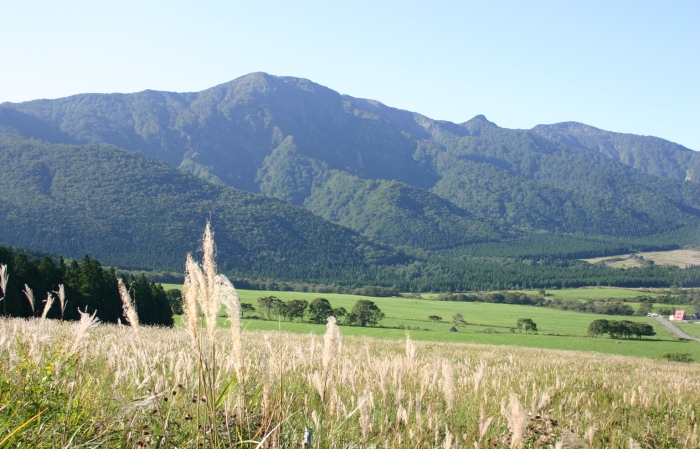 Mount Kamuro (Kamurodake) as seen from Onikobe, Osaki, Miyagi